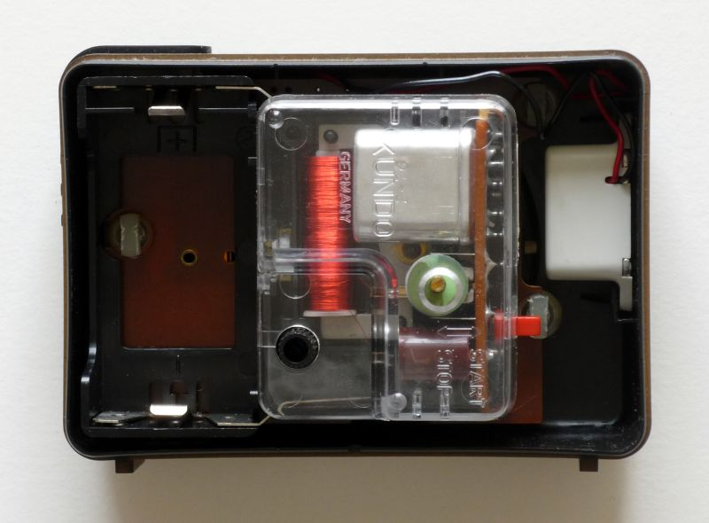 View of the works of an early Kundo quartz alarm clock from 1976. The timekeeping quartz crystal is inside the aluminum can at center. The battery compartment (battery removed) is at left.